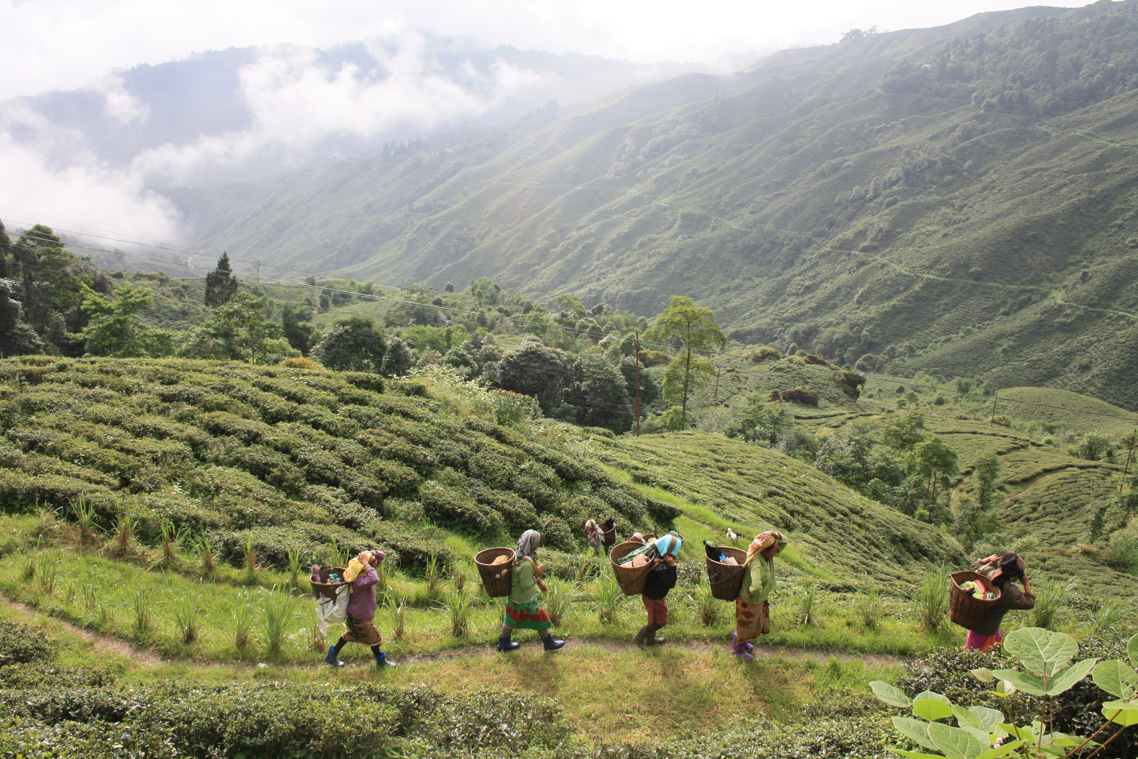 Women carry tea leaves they just harvested in baskests on their backs. Taken on a tea plantation in the Darjeeling area from the roadside of NH 55 (aka Hill cart road)